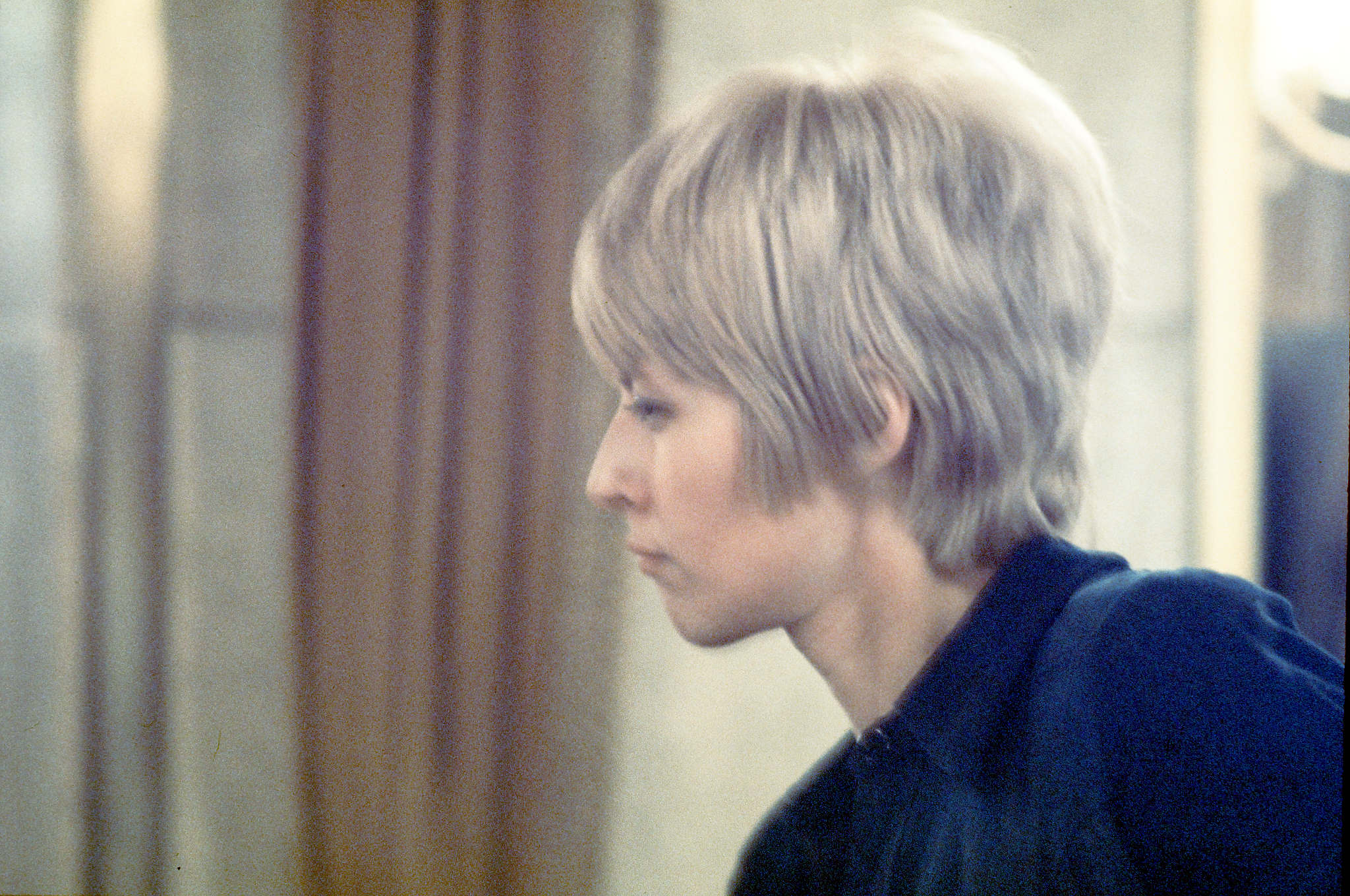 Claire Bretécher in 1973 Supplementary technical data: digitization of a 35mm slide. Original camera: Nikon F with 43-86mm Nikkor lens